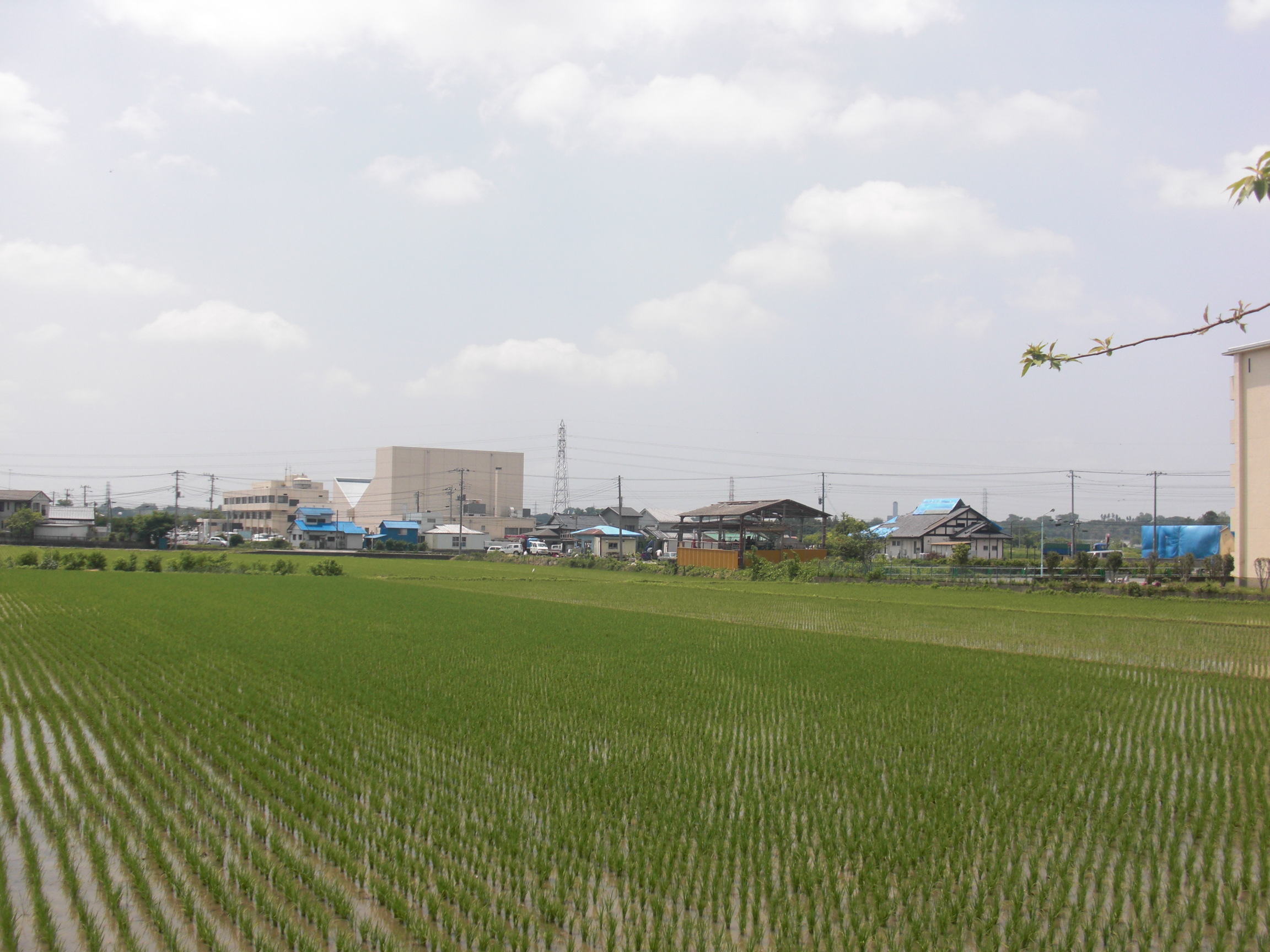 These are paddy fields in Hojo, Tsukuba, Ibaraki, Japan. These fields produce Hojo Rice.